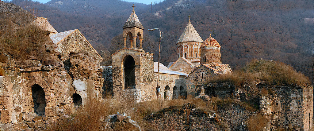 Dadivank in 2009